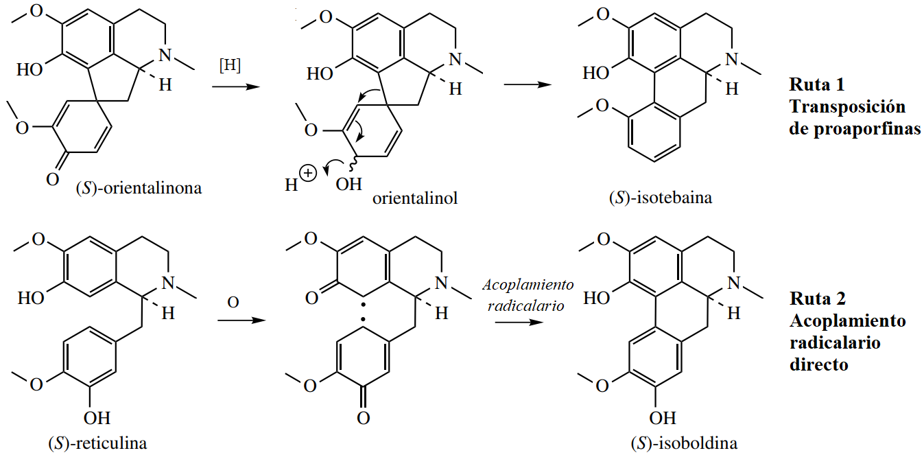 Aporrphines pathway